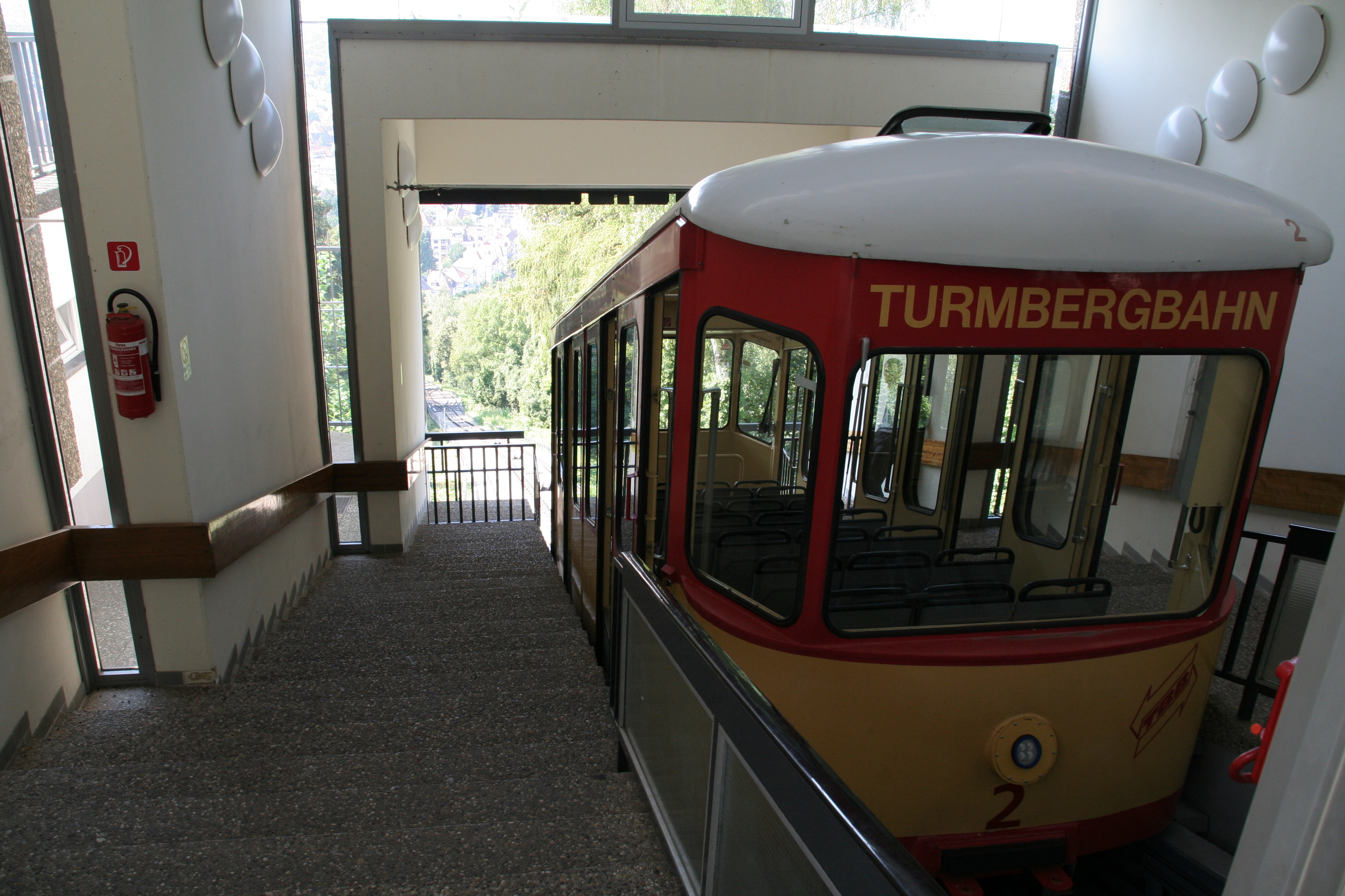 Bergstation Turmbergbahn